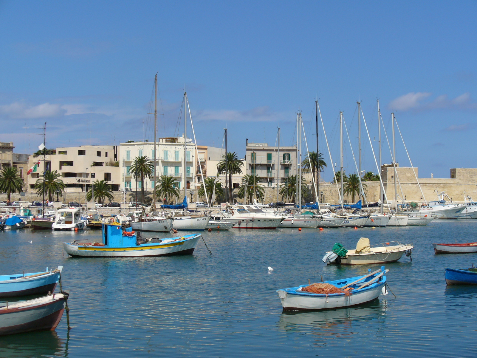 This is a beautiful sunny view of the old port or harbour of Bari, Italy, in August 2005.